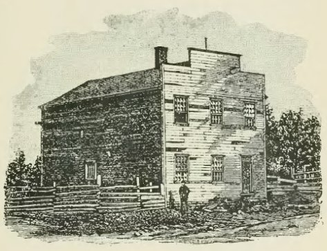 Illustration in History of Iowa From the Earliest Times to the Beginning of the Twentieth Century